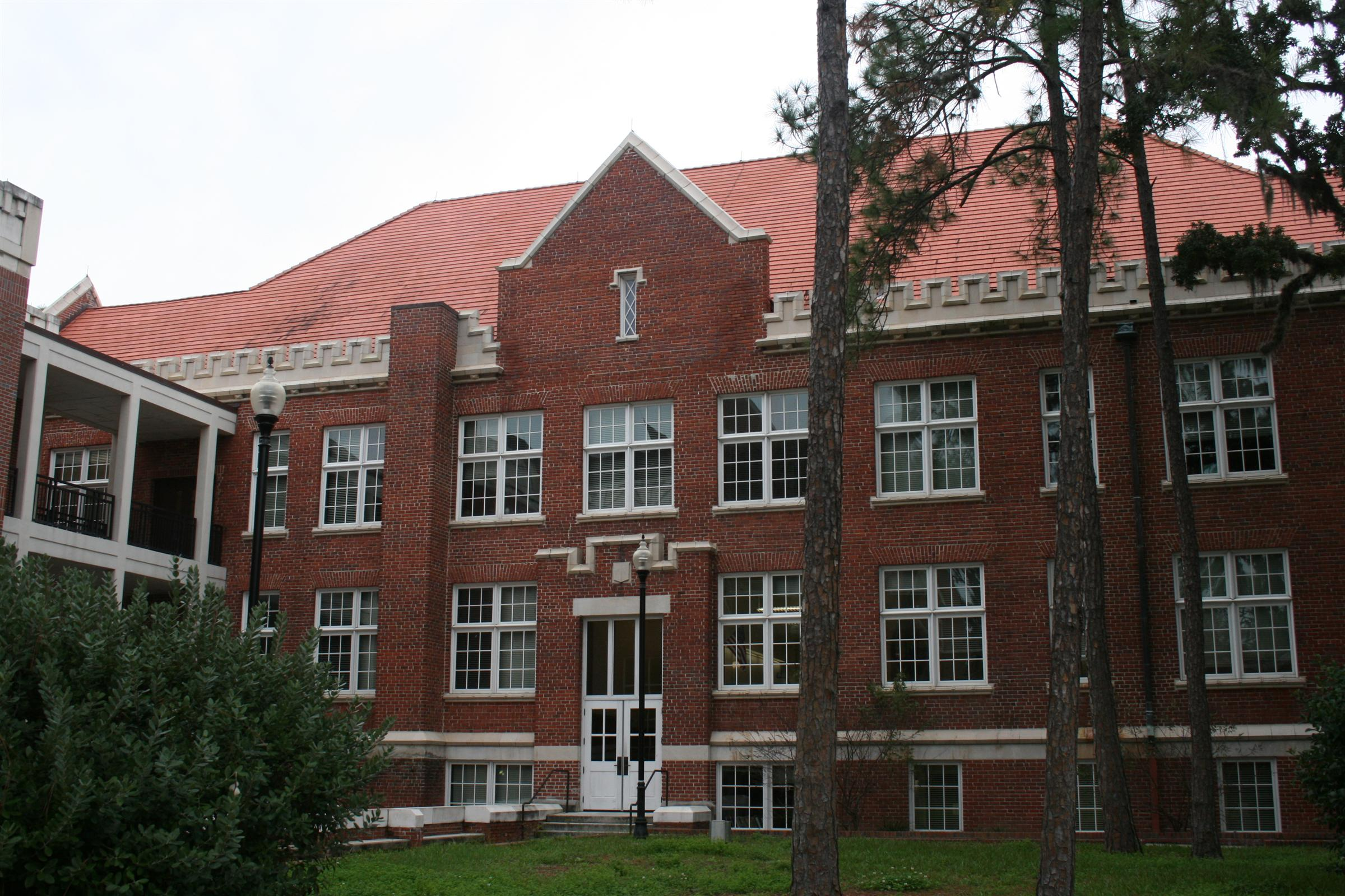 On 5 January 2007 I took pictures of most of the buildings on the UF campus that are designated National Historic Places. The only two buildings I didn't take pictures of are the Old WRUF station building and the Women's Gym. The day was overcast and about to rain so the skies aren't so great, but I think they get the job done. If I get any better shots of these buildings I'll upload them in place of the older ones. This message will be the same on all the images. --Douglas Whitaker 05:53, 6 January 2007 (UTC)